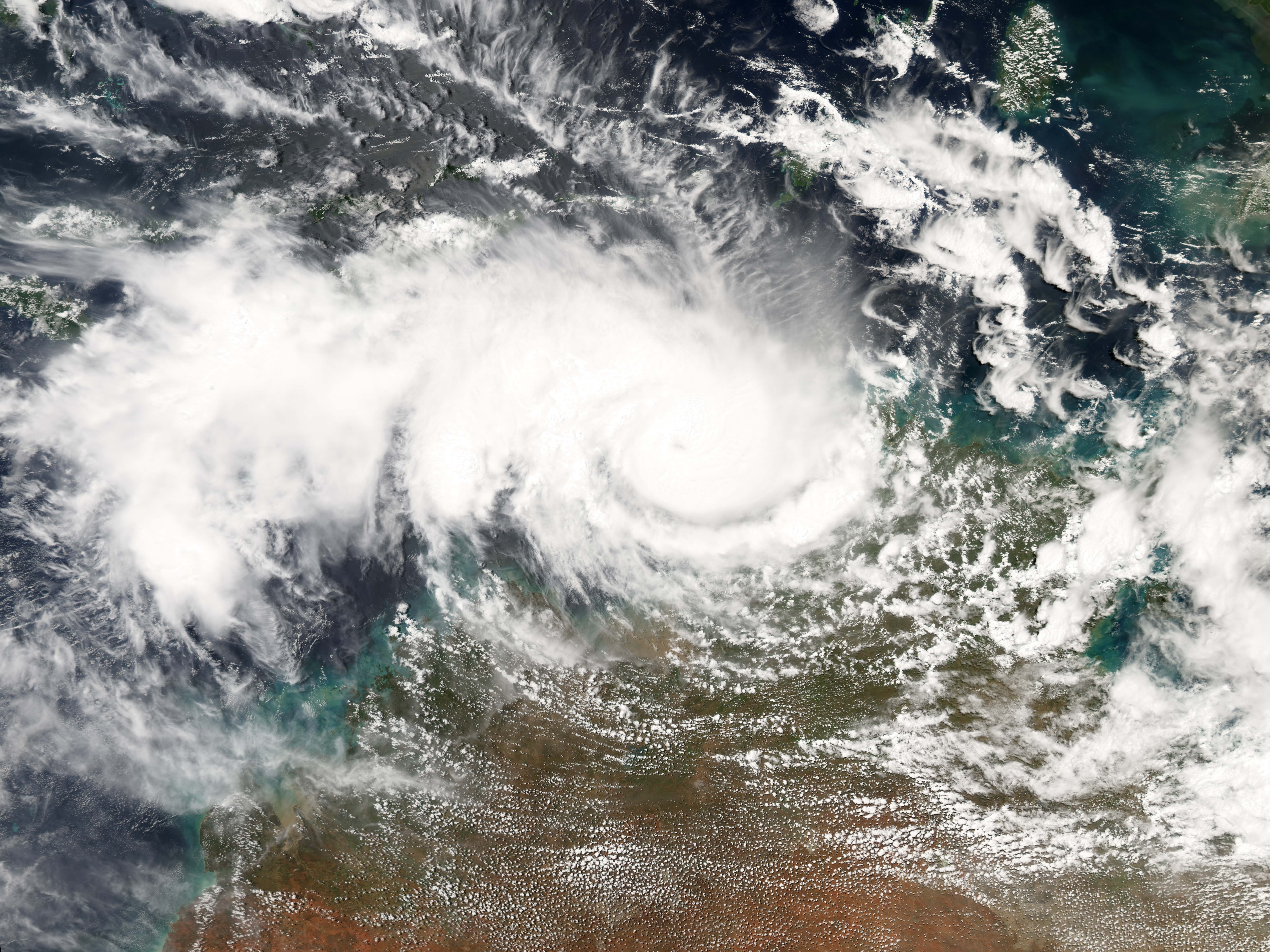 Cyclone Ingrid continues to build steam as it skims the coast of Australia’s Northern Territory. The storm formed on March 6, 2005, in the Coral Sea, east of Australia. On March 9 and 10, it crossed the Cape York Peninsula, all but disintegrating over land. But when Ingrid reached the Gulf of Carpentaria, it re-formed into a Category 4 cyclone. The storm is now in the Timor Sea, and is expected to maintain its current intensity until it comes ashore over Kimberley, Australia. According to the Joint Typhoon Warning Center, the storm had winds of 213 kilometers per hour (132 mph) with gusts to 260 kph (160 mph) about the time this image was acquired on March 14, 2005. The Moderate Resolution Imaging Spectroradiometer (MODIS) on NASA’s Aqua satellite captured this true-color image of the storm.